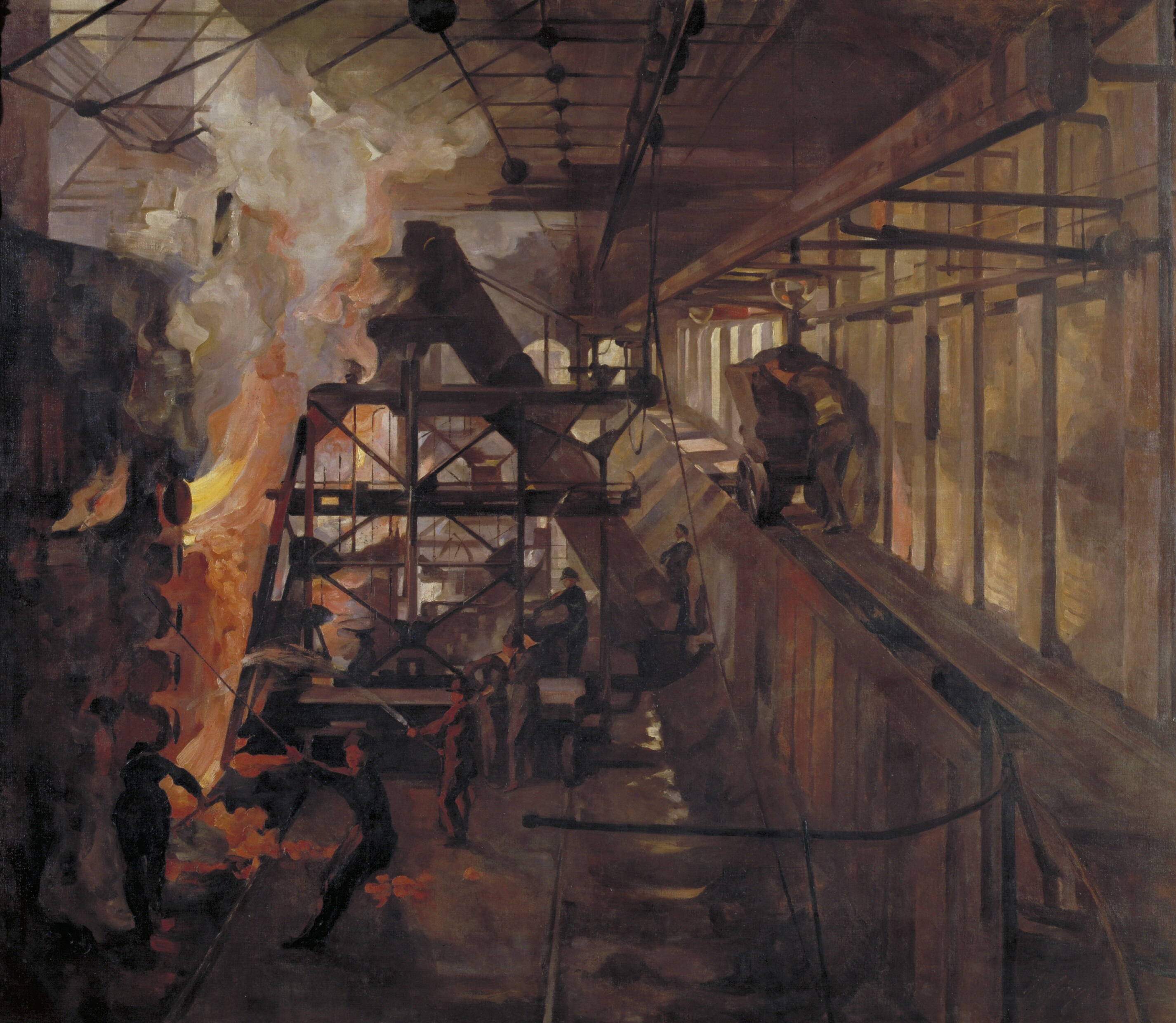 Women Working in a Gas Retort House- South Metropolitan Gas Company, London image: The interior view of a gasworks showing the retort process. Several women dressed in dark overalls stand at work on the floor of the gasworks. The focal point is the clouds of grey smoke and yellow flames emitted from the wall on the left of the painting.